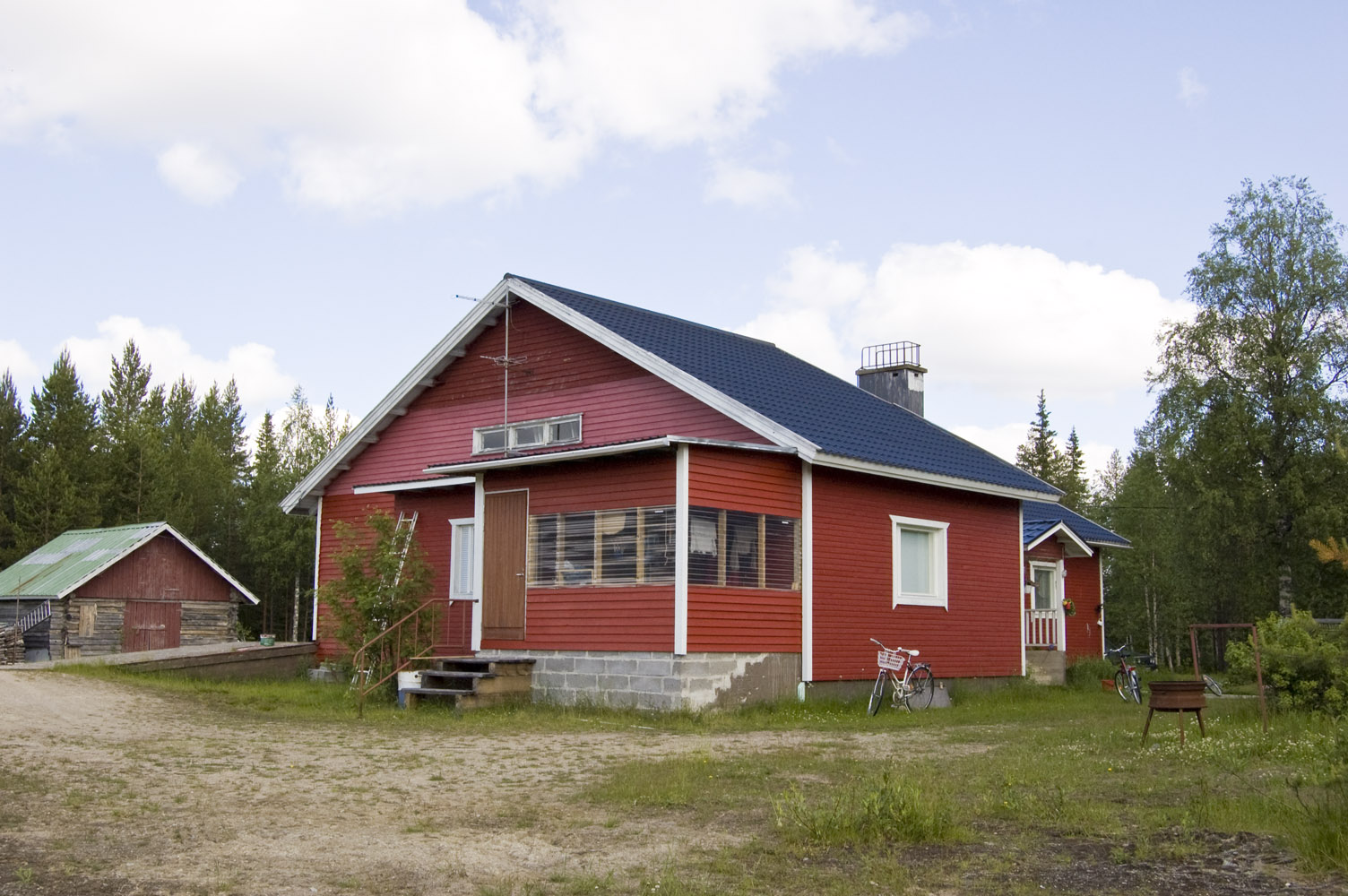 Korvua railway station on the discontinued Pesiökylä–Taivalkoski line in Metsäkylä, Taivalkoski municipality, Finland. The building is a private residence.